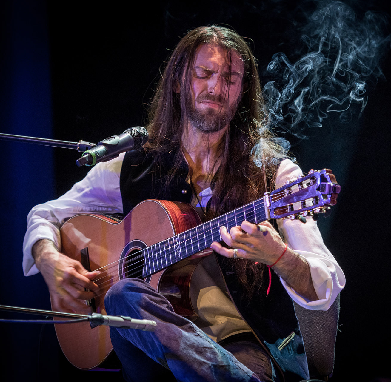 Estas Tonne's 2016 album "Mother of Souls"